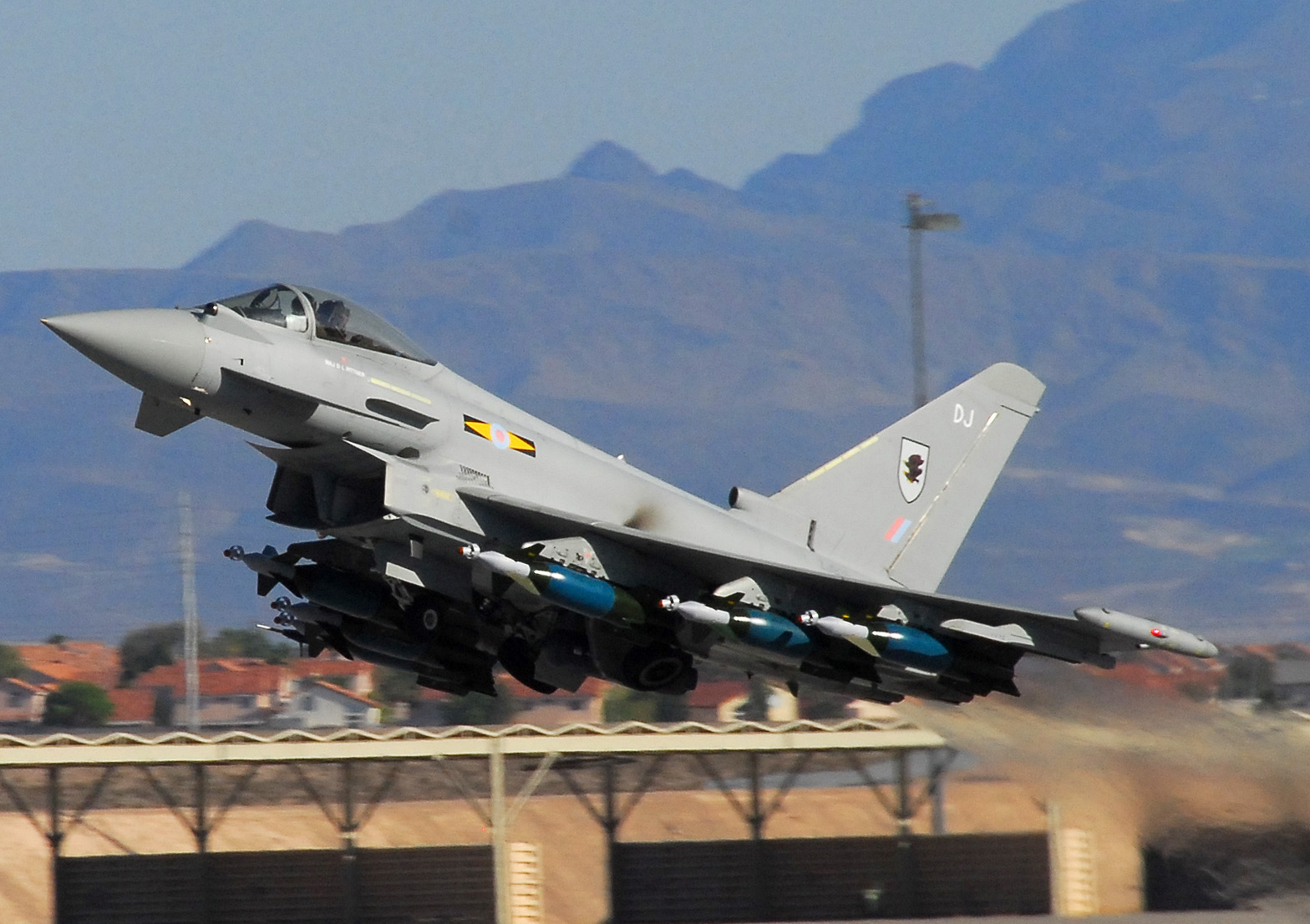 Royal Air Force Eurofighter Typhoon fighter takes off during Green Flag 08-07 at Nellis AFB, Nevada, USA